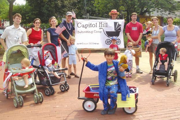 The Capitol Hill Baby-Sitting Co-op at a July 4th parade.